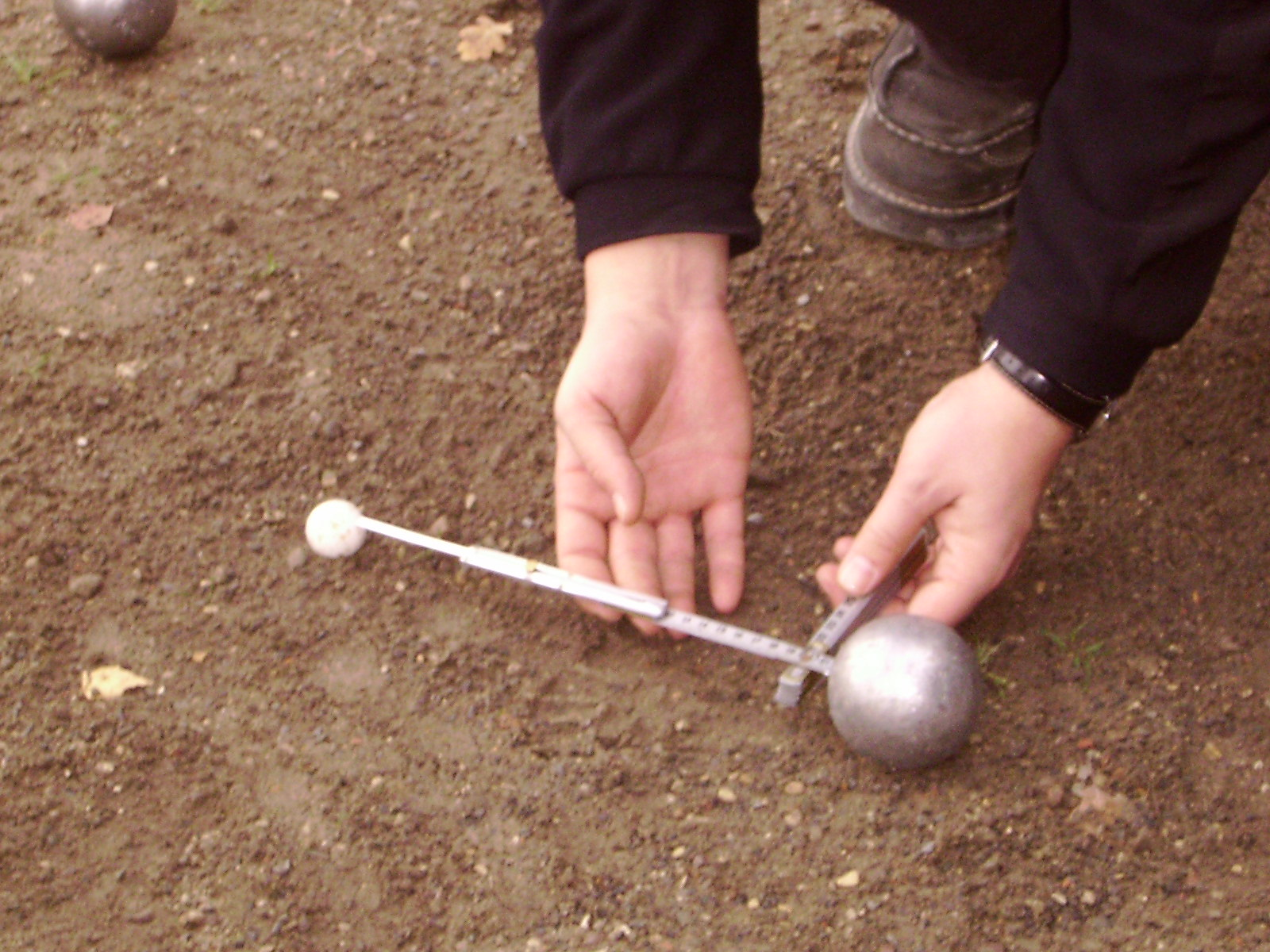 Measuring in Pétanque with folding ruler